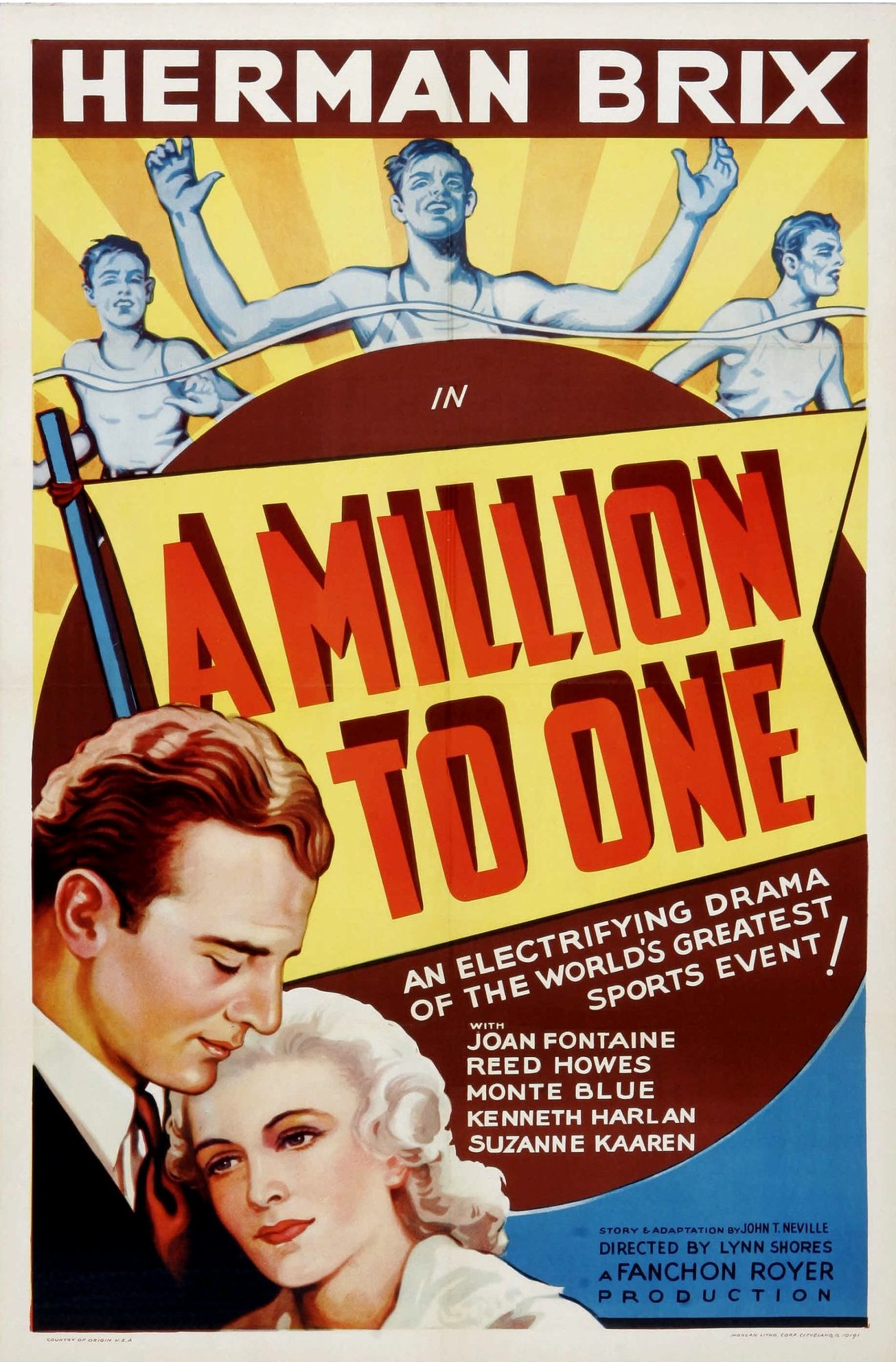 Poster for the 1937 film A Million to One. There are no copyright marks. At bottom left is Country of origin USA. At bottom right is Morgan Litho Corp. Cleveland, O. 10191.